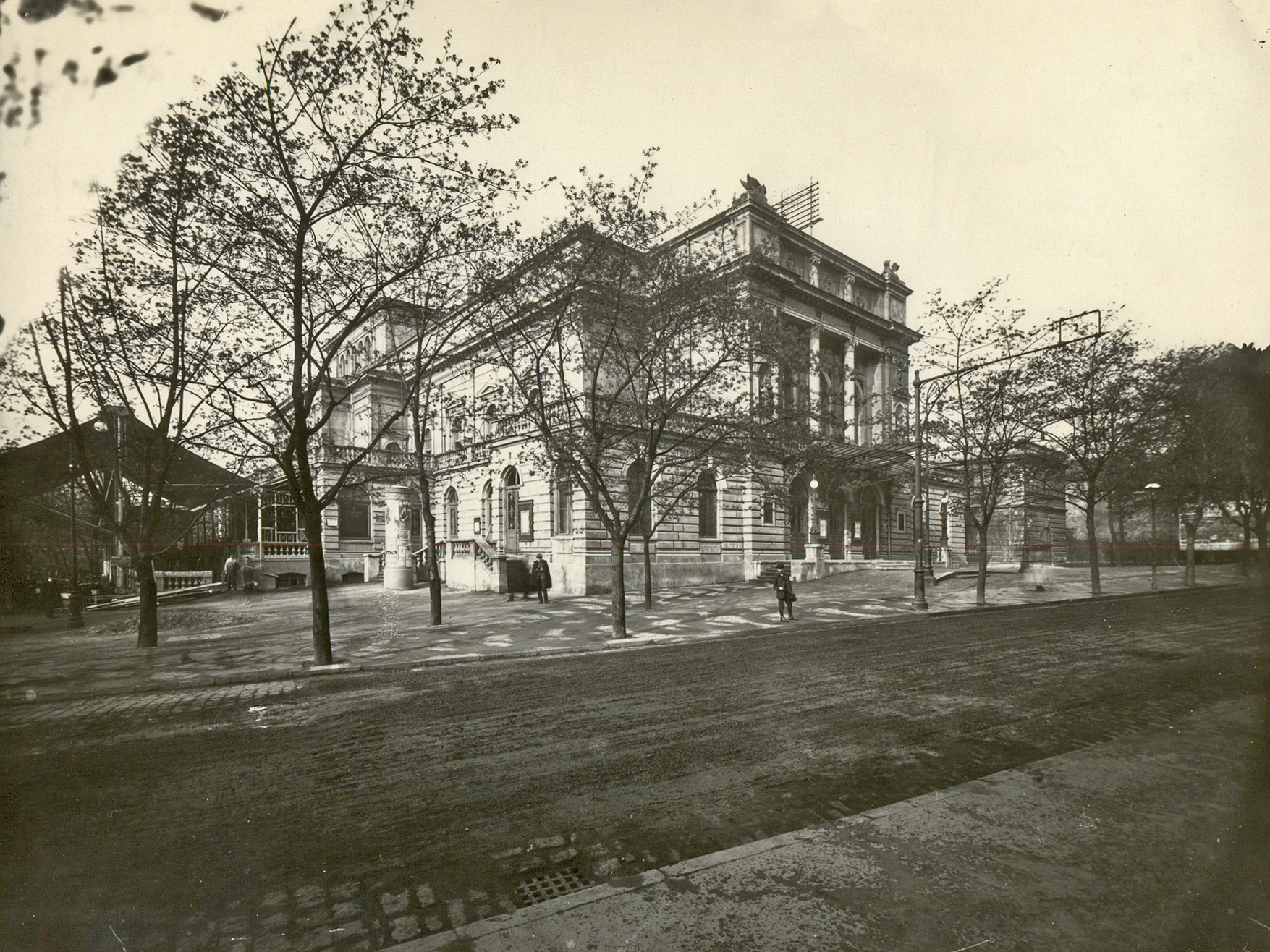 Theatre in Teplice; destroyed by fire on 31st of August 1919